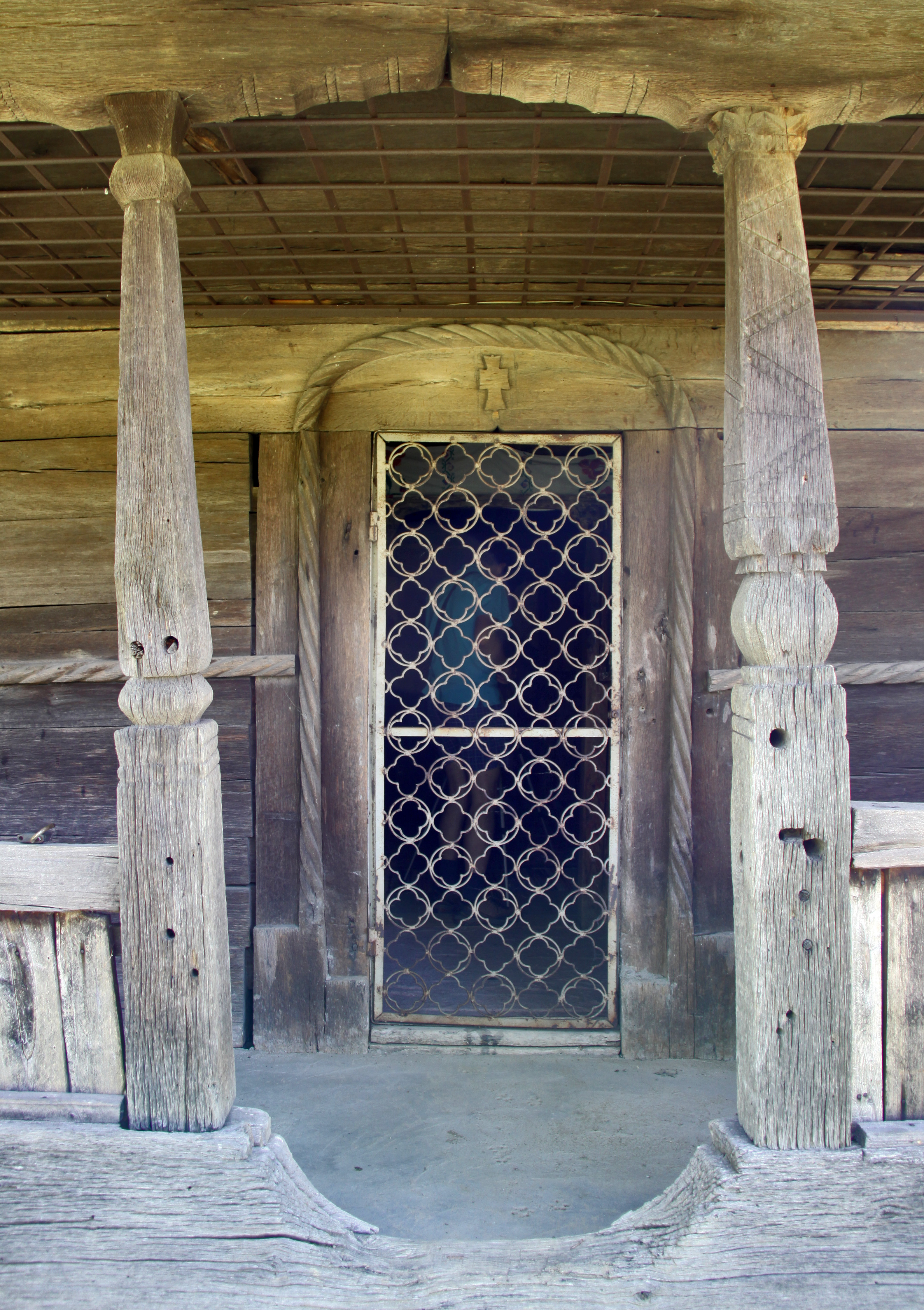 Mitrofani, Vâlcea County, Romania: the wooden church, veranda, entrance.